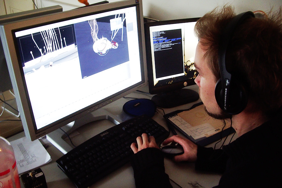 Photo of Working for movie Elephants Dream, October 27-November 6, 2005